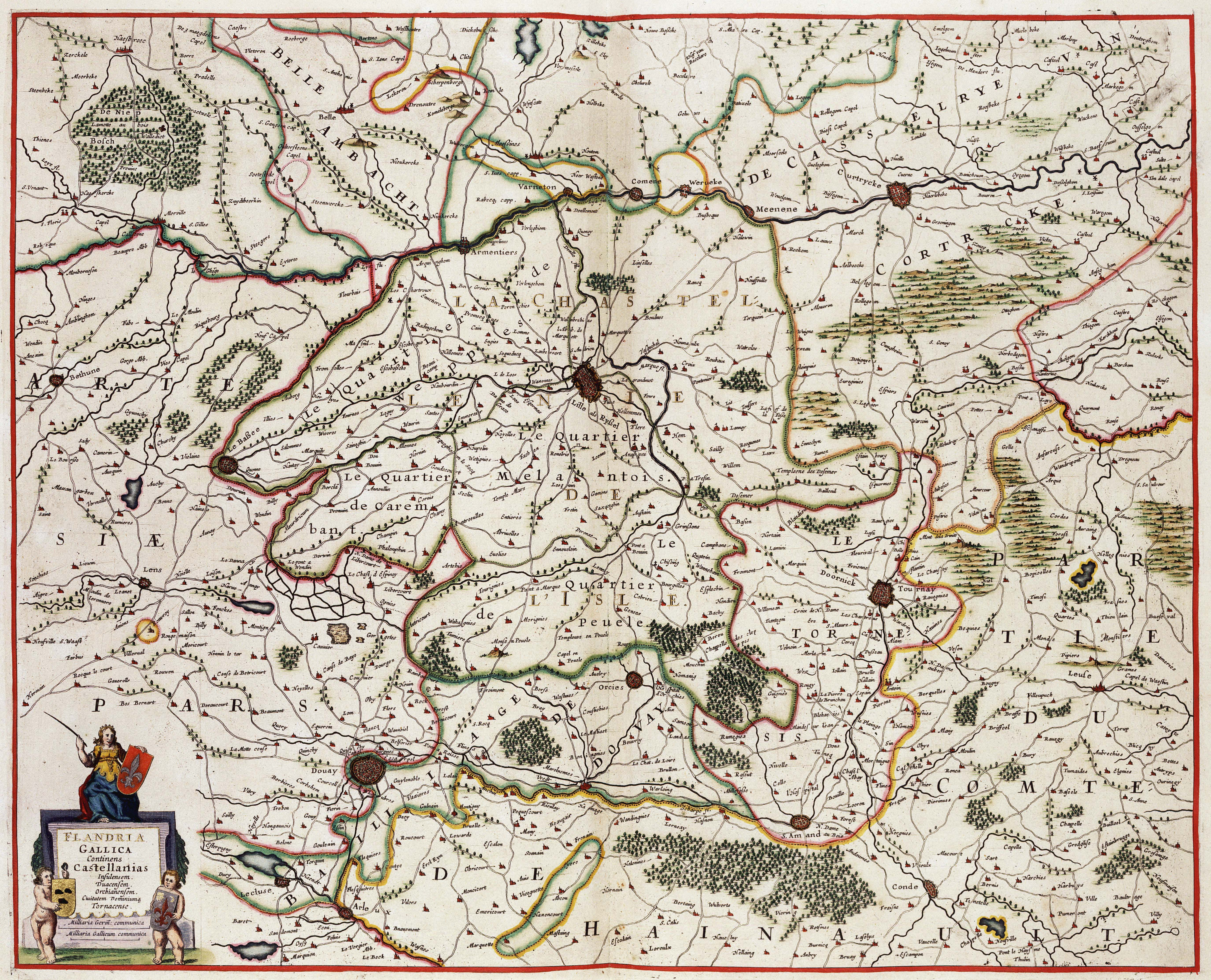 This map of a part of Walloon province of Belgium was published in 1647 in an atlas by Jan Janssonius (1588-1664). Its sources are unknown.